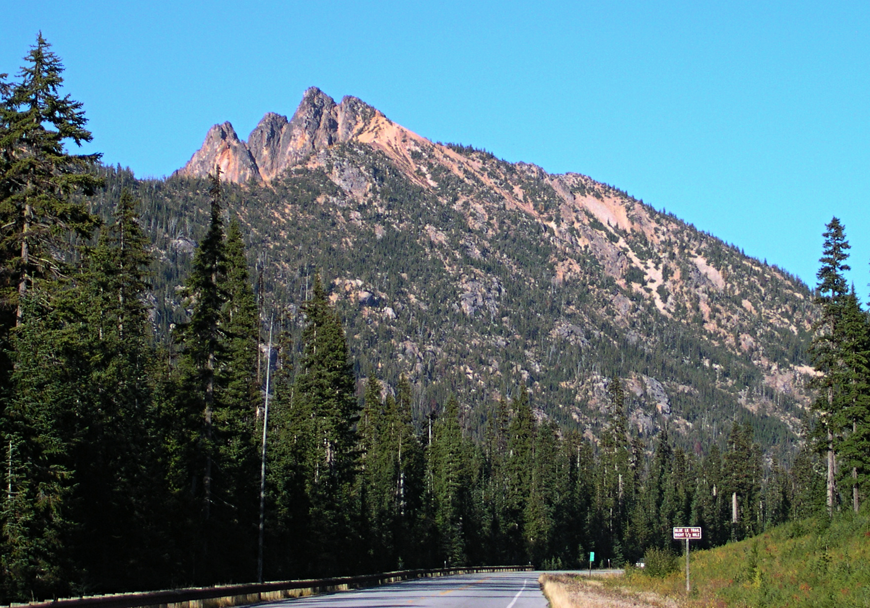 Hinkhouse Peak 7,560 ft (2,300-metre), from North Cascade highway